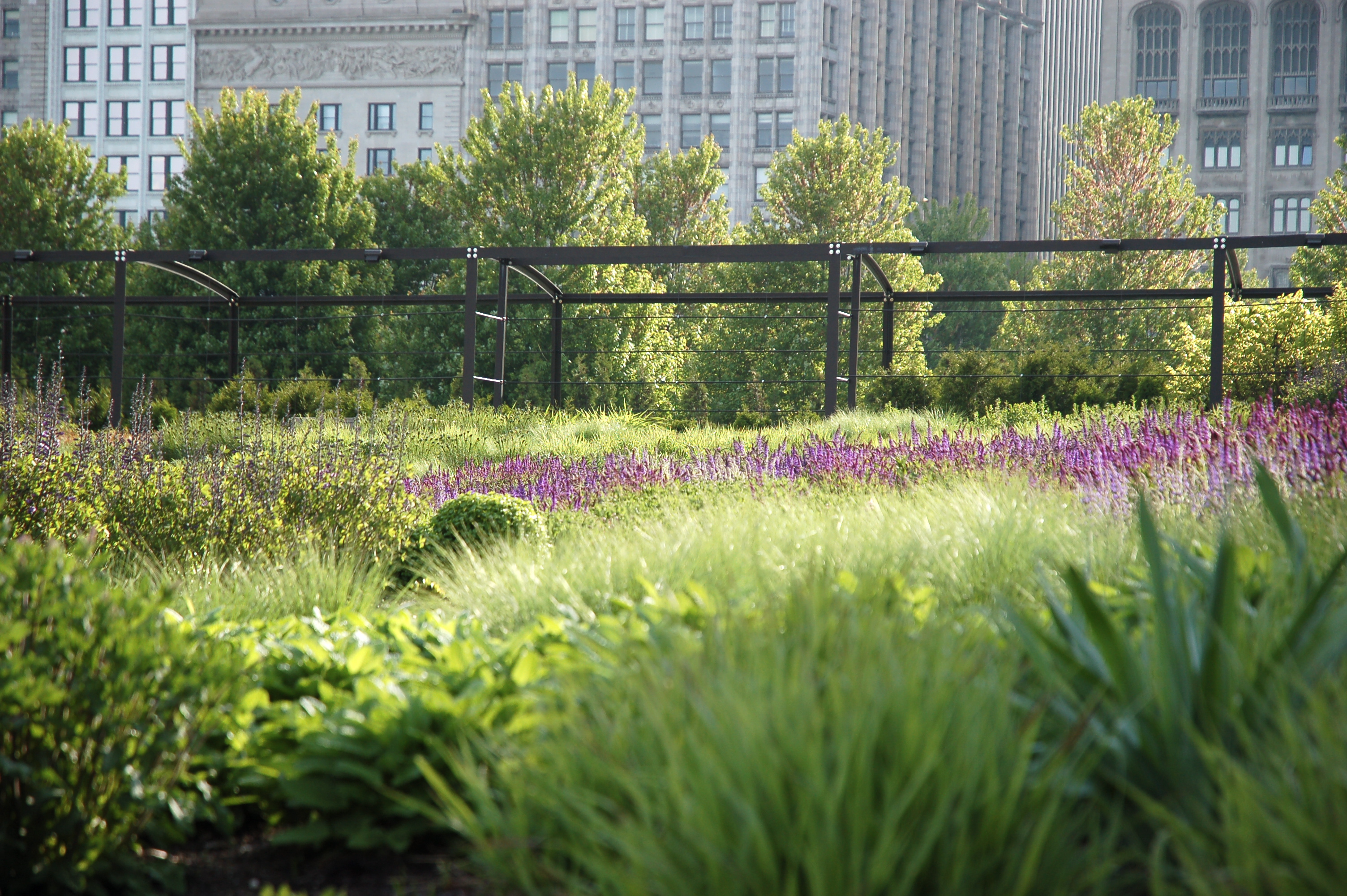 View of the west shoulder hedge and armature of the Lurie Garden